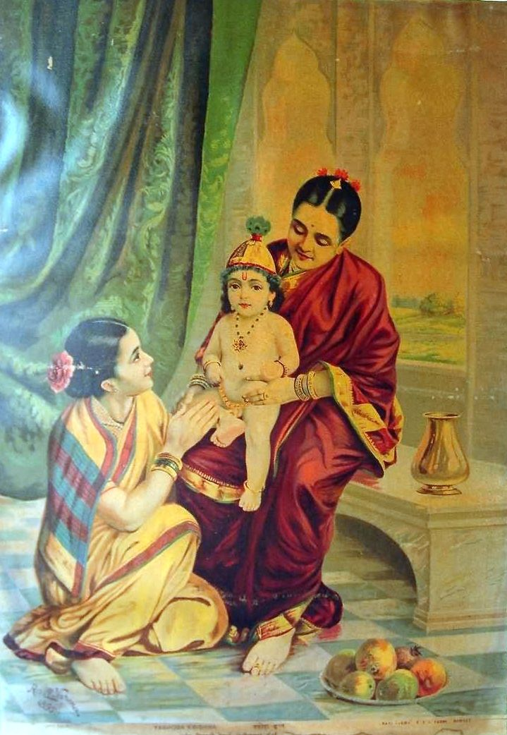 From the Ravi Varma studio, 1910's Source: ebay, Jan. 2010